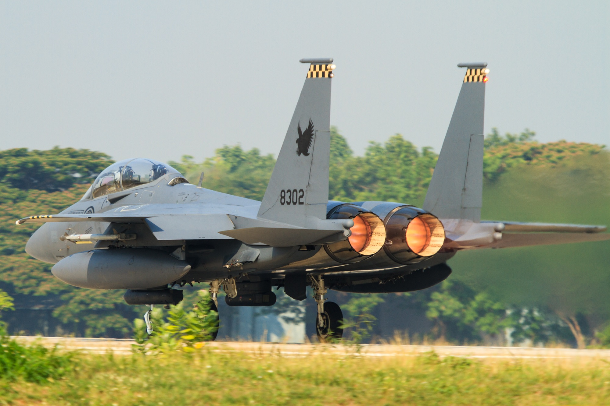 A RSAF F-15SG taking off from Korat Royal Thai Air Force Base during Exercise Cope Tiger 2012